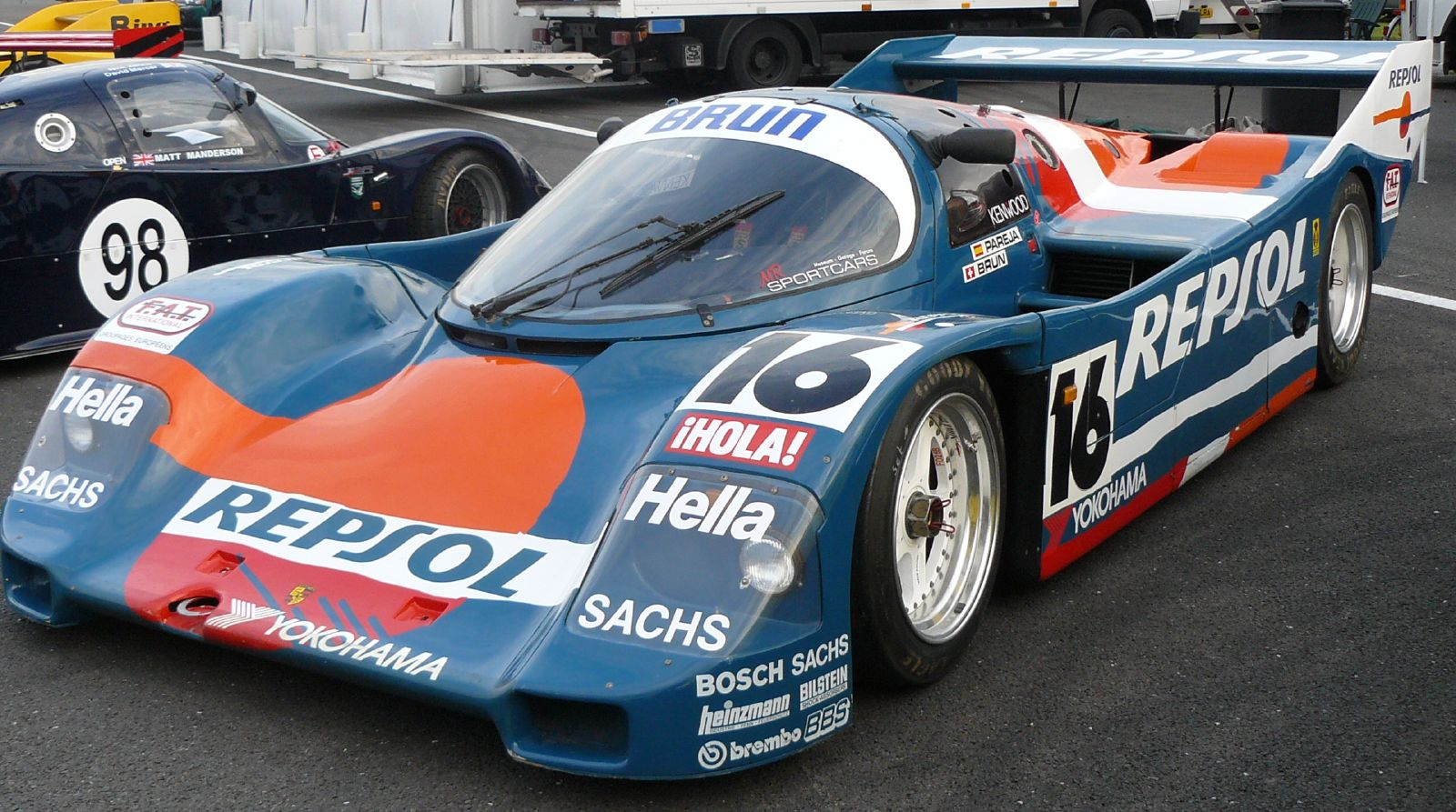 A Porsche 962C at the Silverstone Classic